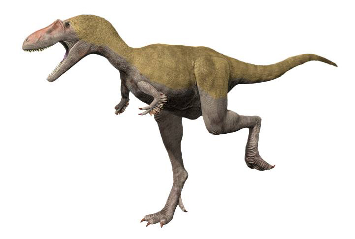 Life reconstruction of Albertosaurus sarcophagus